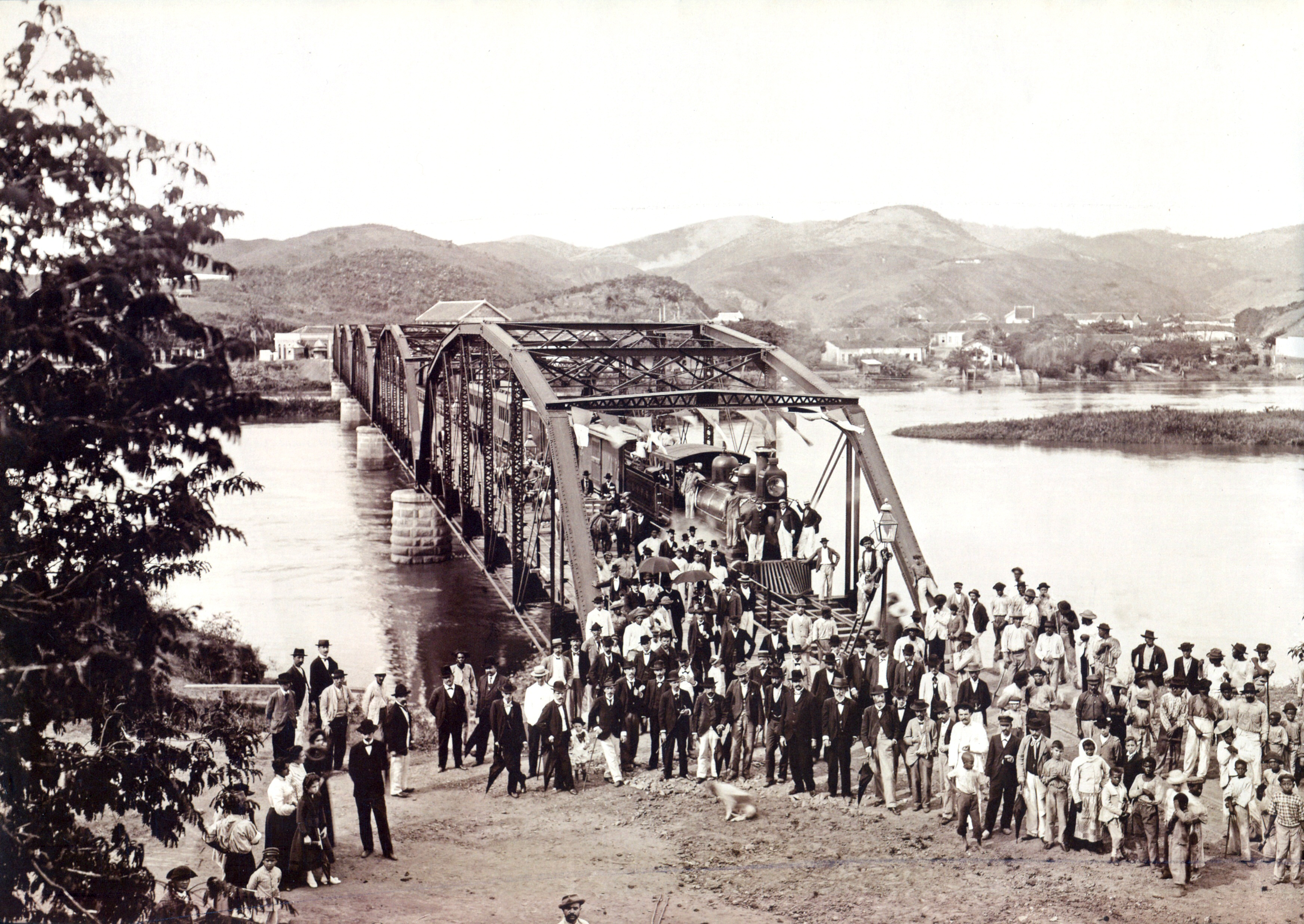 Inauguration of a railroad bridge over the Paraíba river, Barra do Piraí, Rio de Janeiro province, Empire of Brazil, c.1888.